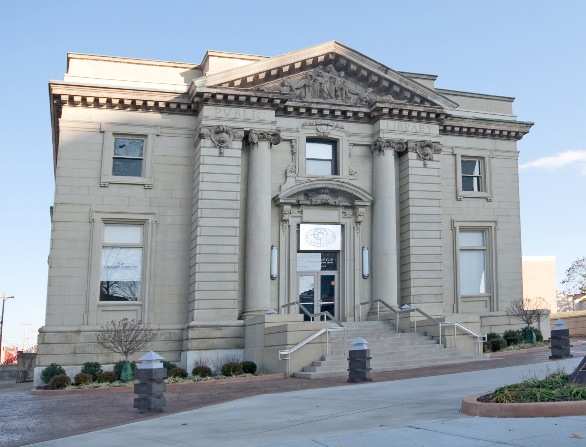 Kenton County Library in Covington, Kentucky Attribution: Photo by Greg Hume